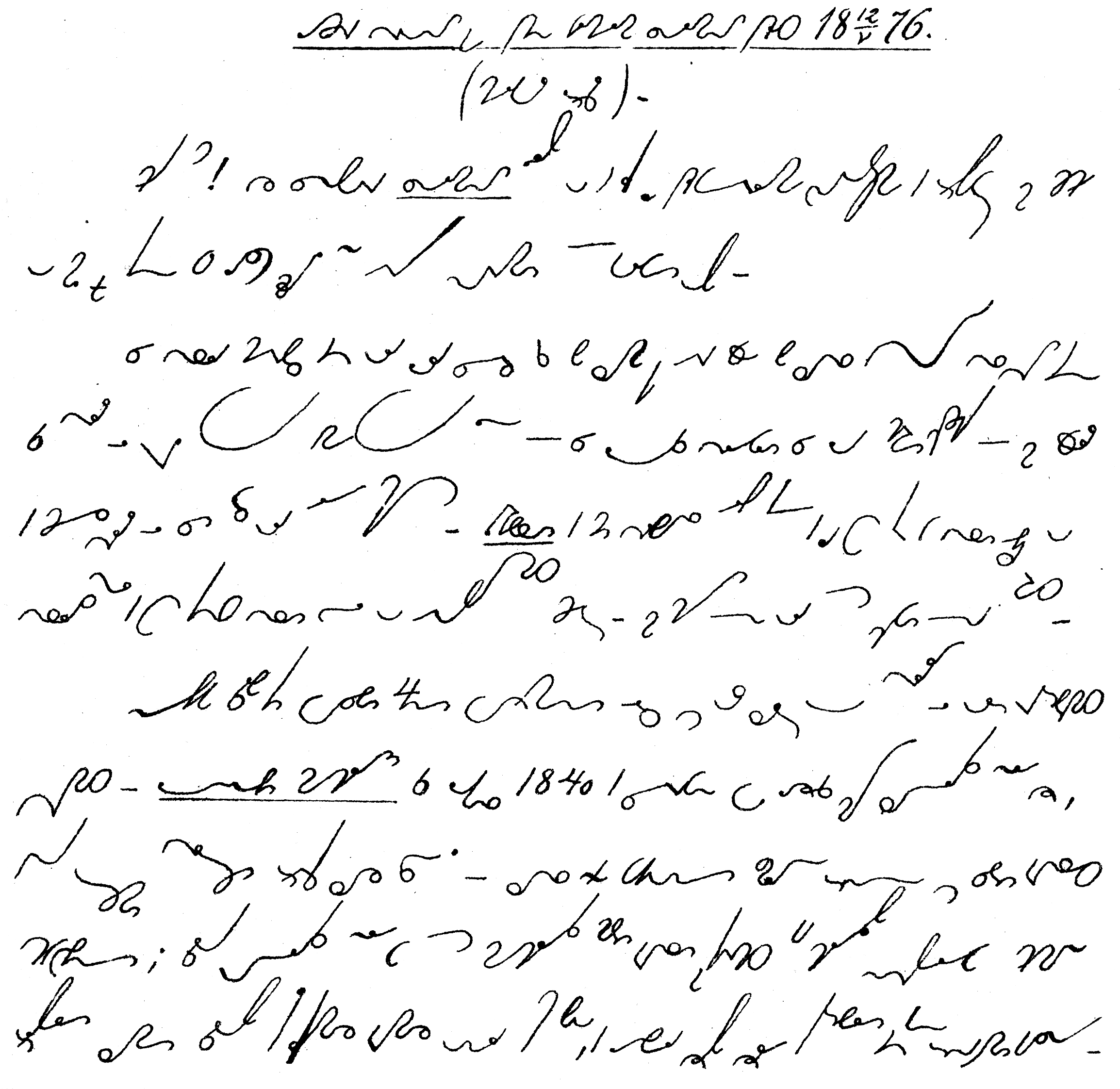 Example of the Neovius-Nevanlinna shorthand system in Finnish. The text is an extract from Julius Krohn's speech to J. V. Snellman on 1876-05-12.